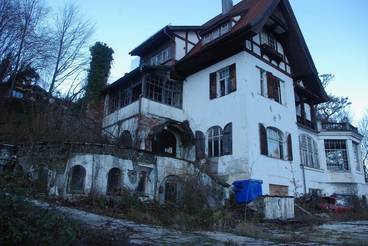 Villa Berchtesgadener Straße 5 in 83457 Bayerisch Gmain This is a photograph of an architectural monument.